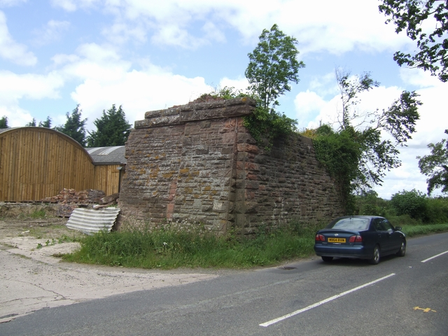 Old railway bridge abutment Not much remains of the old railway embankment on this side of the road. The railway was used for transport of munitions during the war. Known as "the Potts" the line was built in 1866 closing in 1880. It reopened as the Shropshire and Montgomeryshire Light Railway in 1911. Passenger services ceased in 1933 and the line finally closed in 1962.